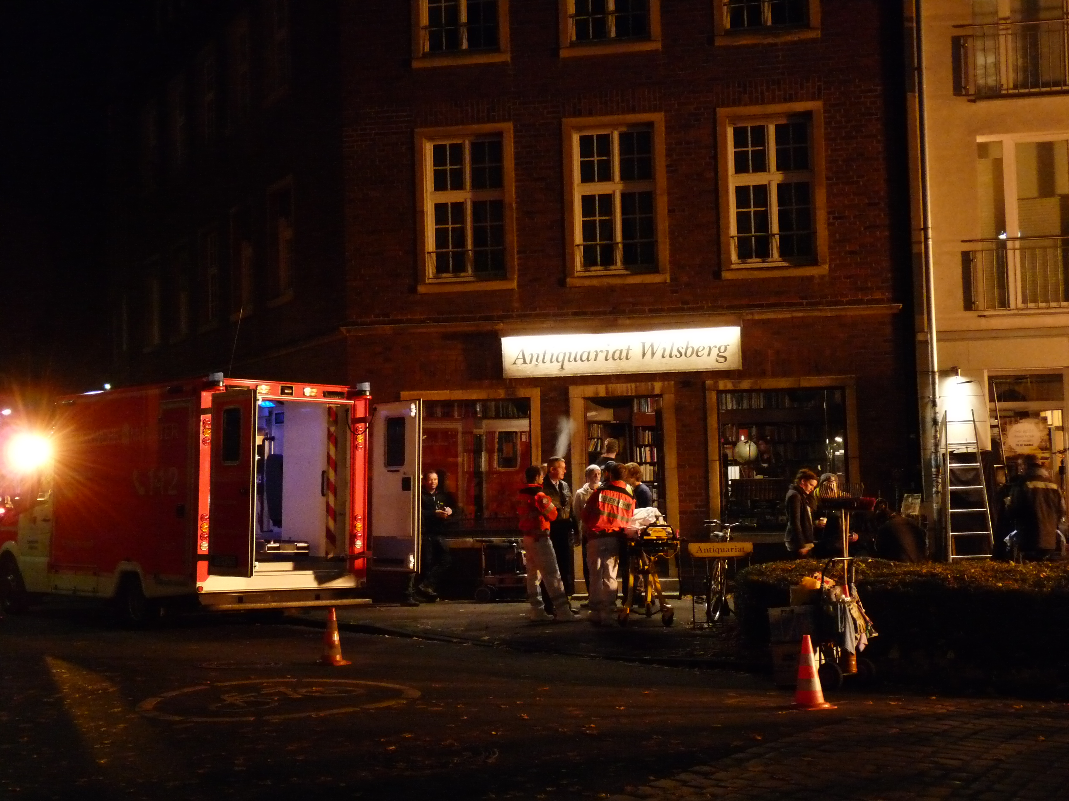 shooting of episode Das Geld der Anderen of TV series Wilsberg